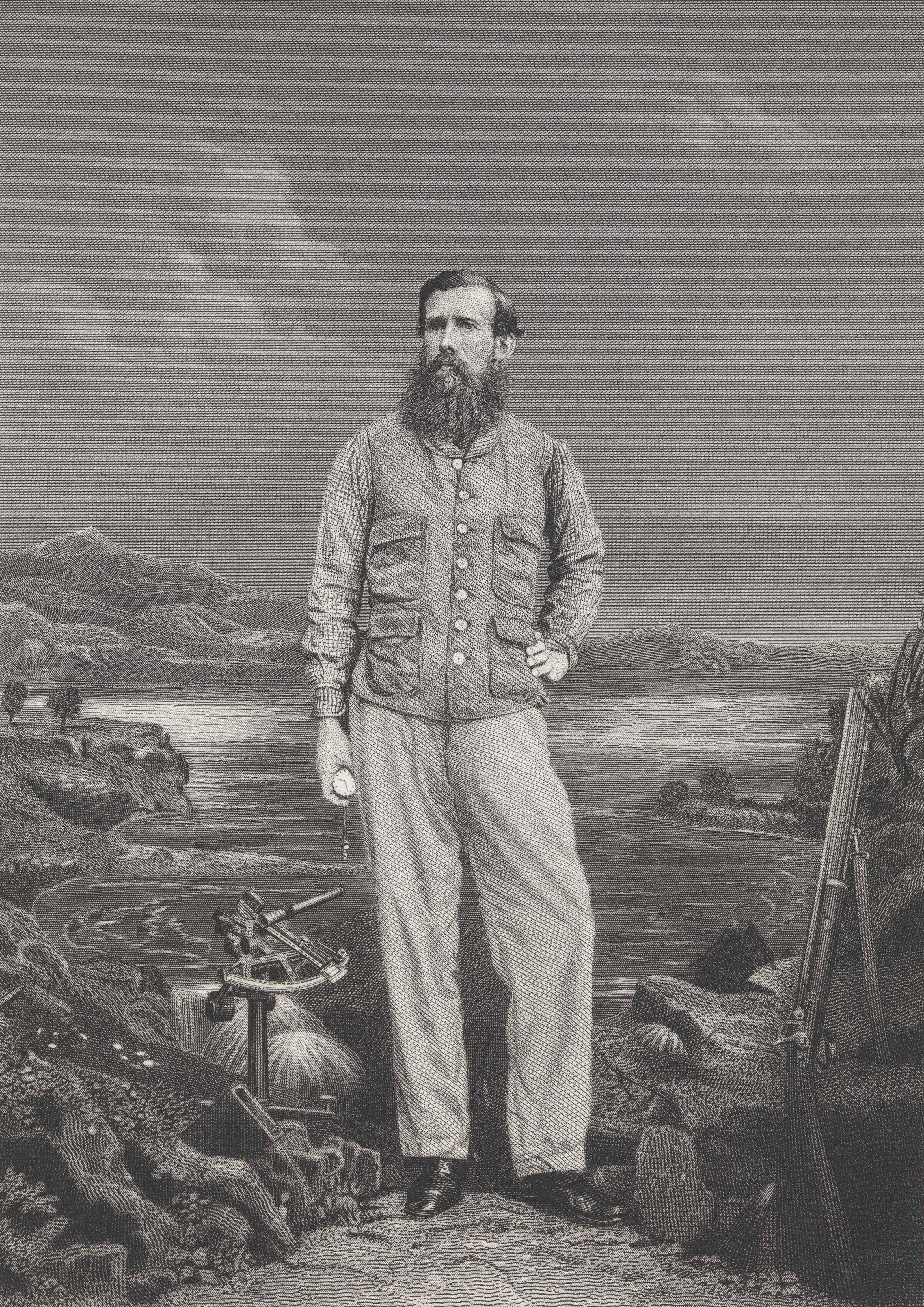 John Hanning Speke (1827-64) A full length portrait of John Hanning Speke (1827-64) from an original photograph by Southwell Brothers of about 1863. To the left of Speke sits a surveying sextant on a stand. After serving in the British army, Speke took part in a number of expeditions in Africa in the 1850s and 1860s, notably to east Africa in 1856-59 (with Richard Burton), during which time he named Lake Victoria, which he believed was the source of the Nile. This was followed by an expedition of 1860-63 to locate the river's source. Speke